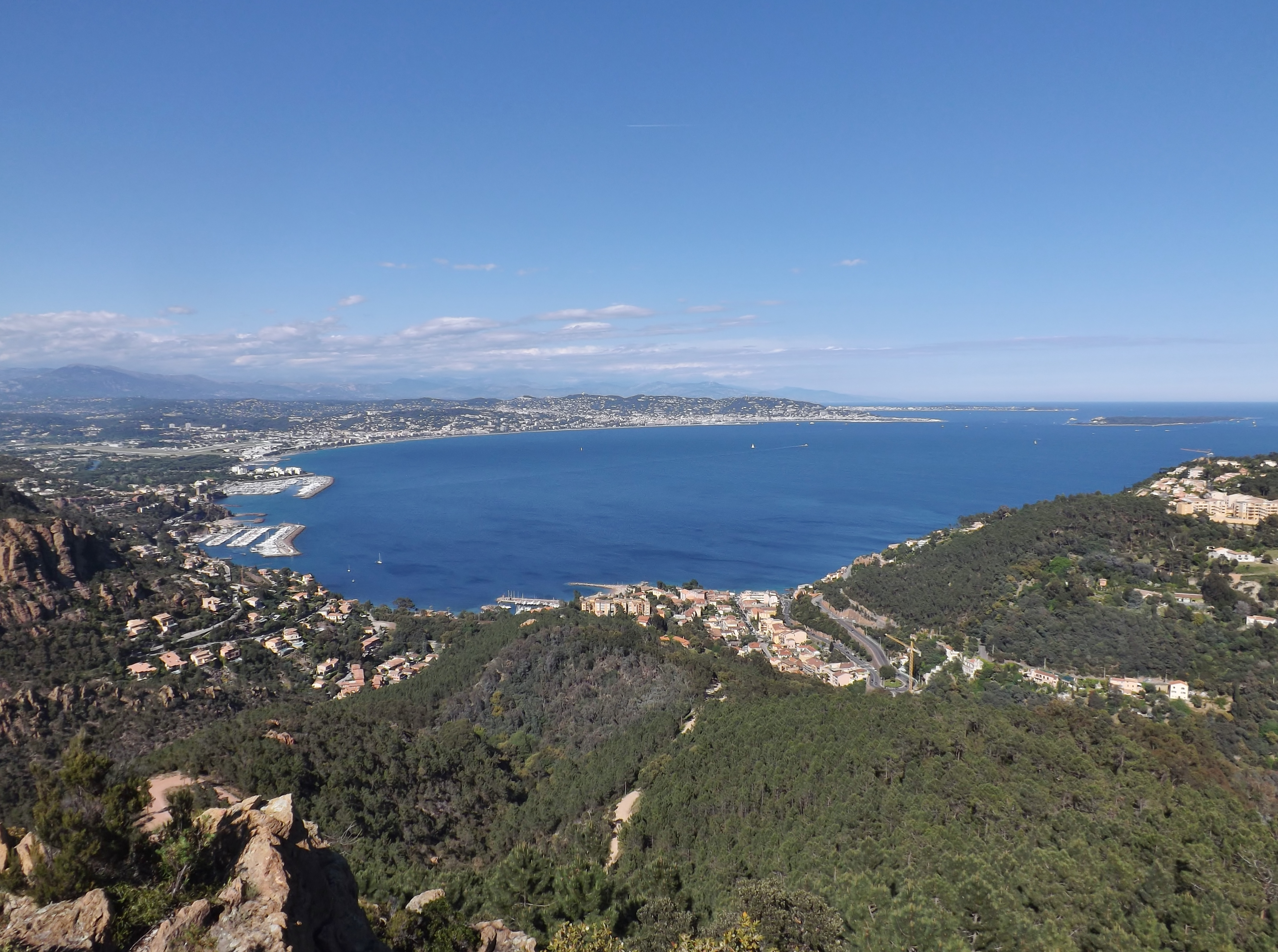 Panoramic sight of the baie de Cannes bay, seen from the heights of the Esterel mountains, in Alpes-Maritimes on the French Riviera.